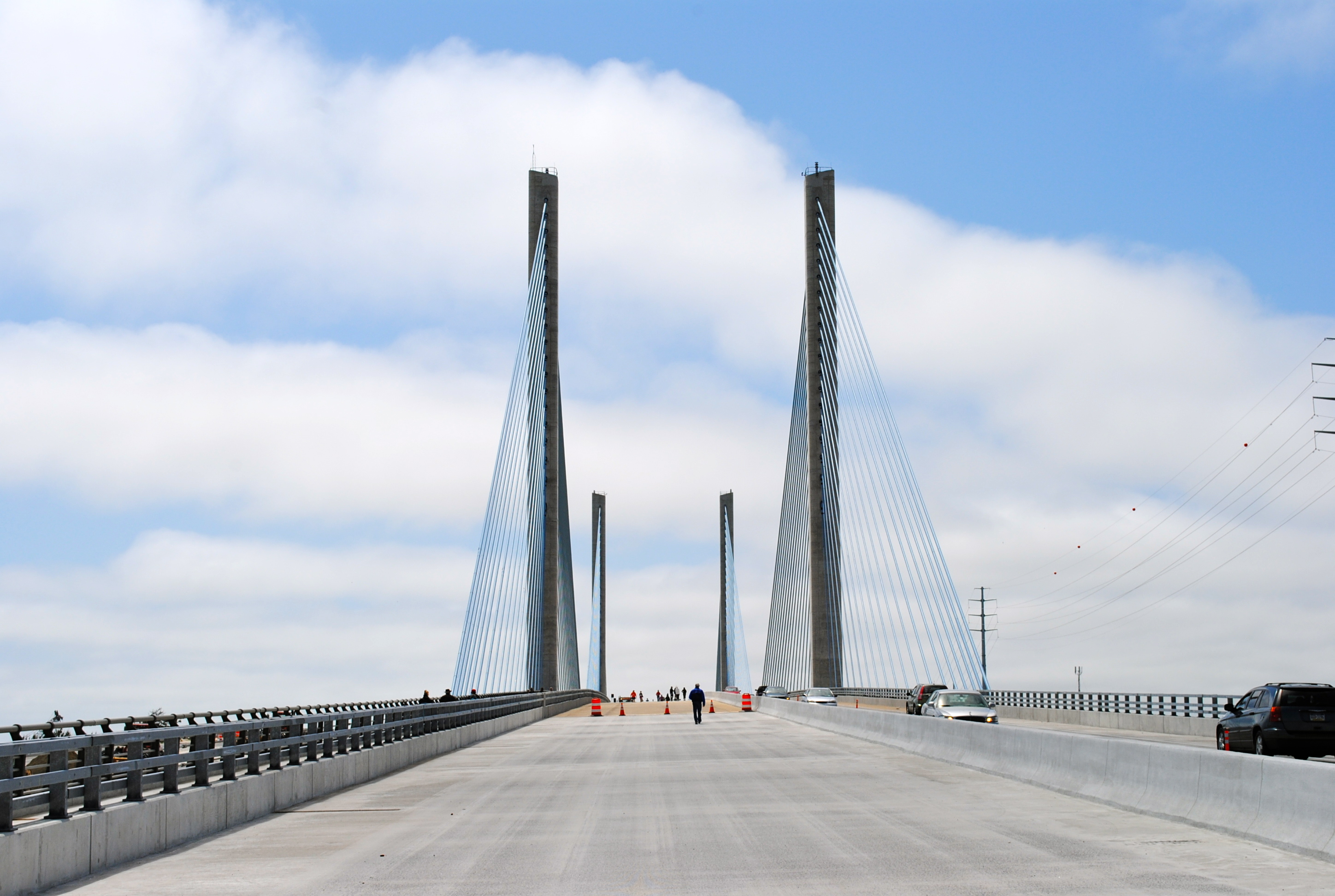 Looking south from the bridge deck.